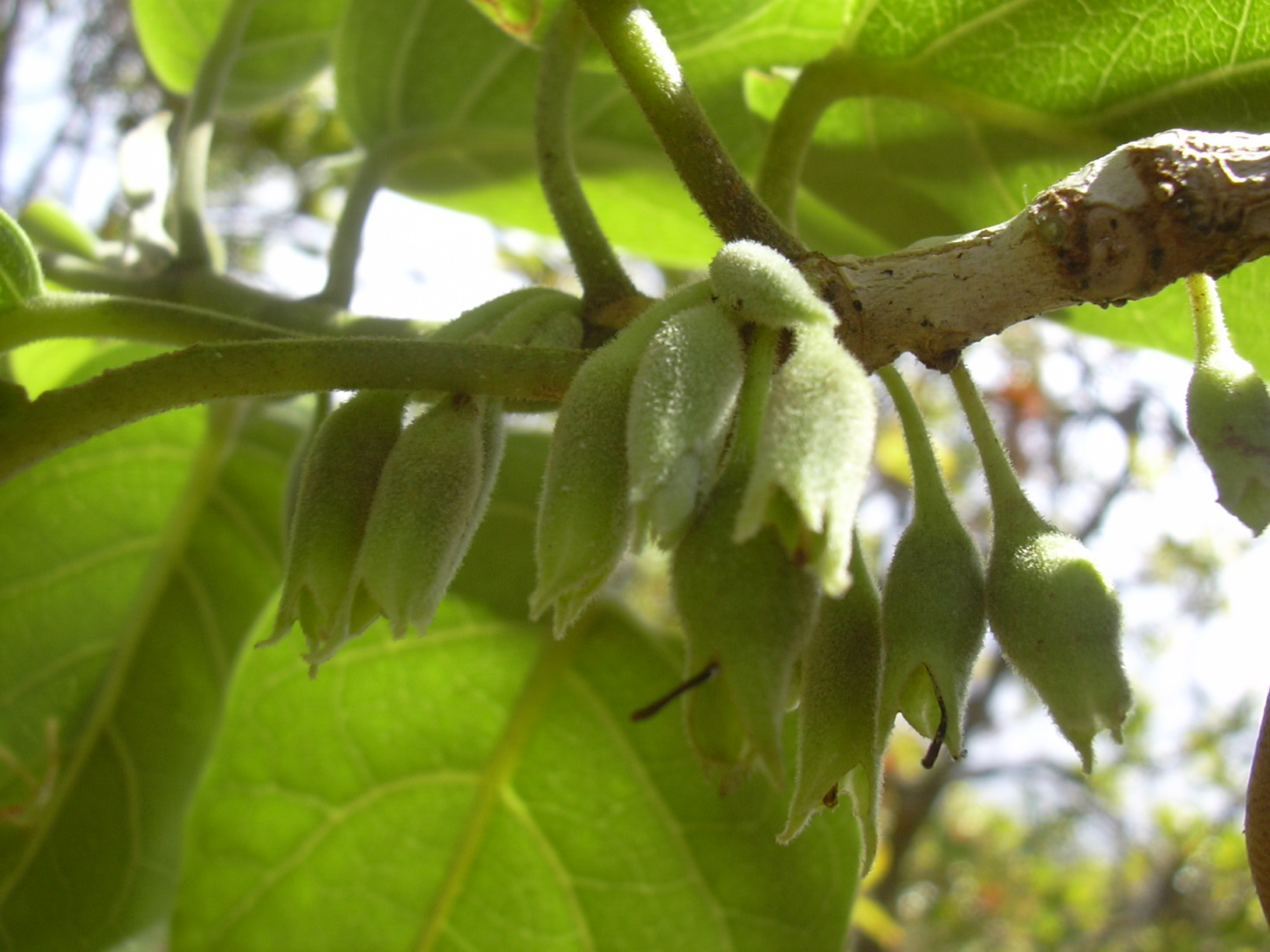 Nothocestrum latifolium (inflorescence). Location: Maui, Auwahi